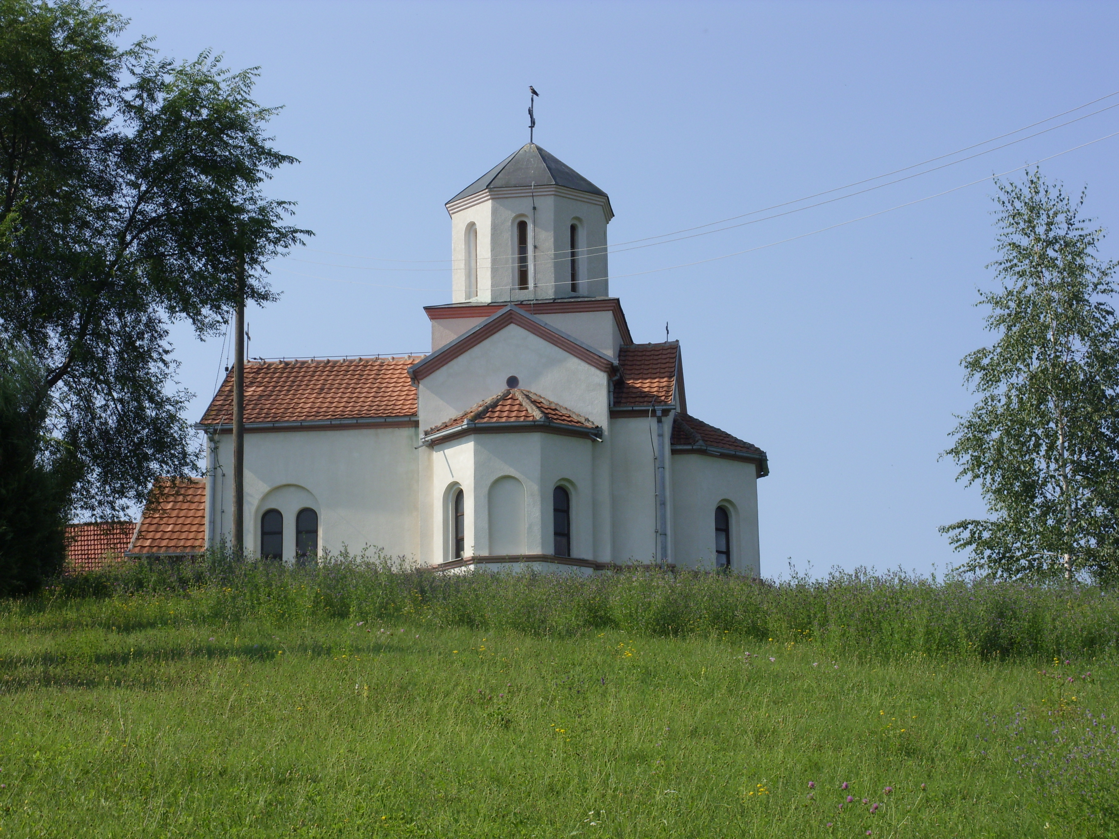 village of Lupten, Aleksinac Municipality, Serbia